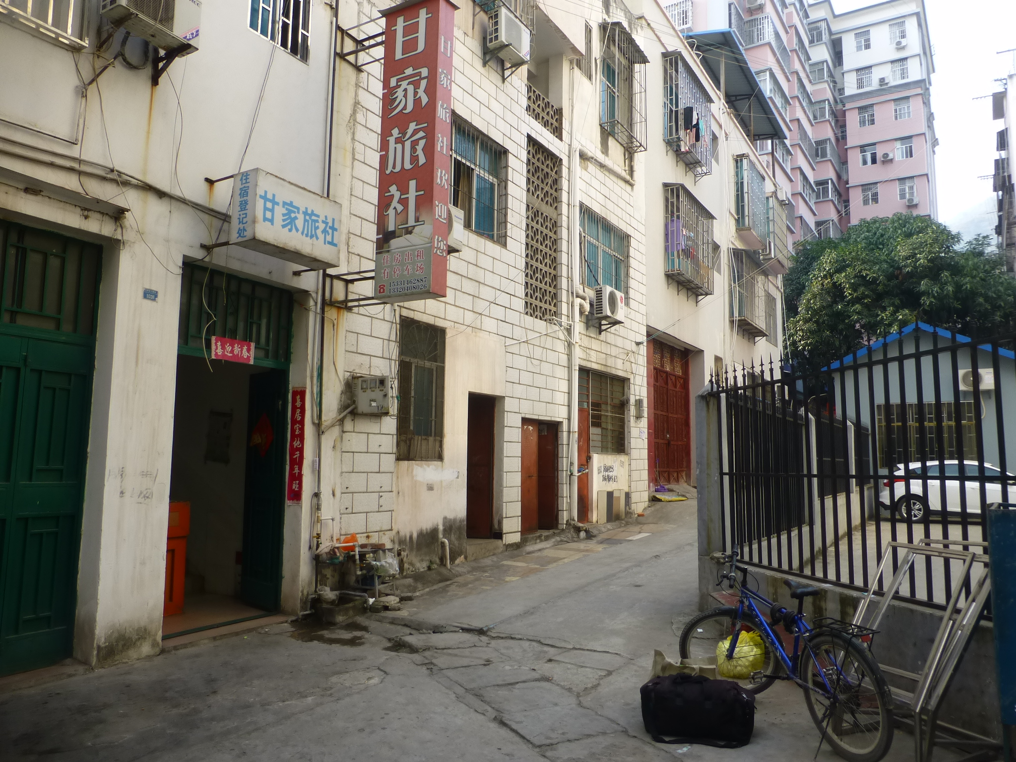 A guesthouse in Nansha Town, Yuanyang County, Yunnan